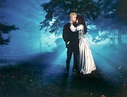 Narcissus finds Psyche in Košice